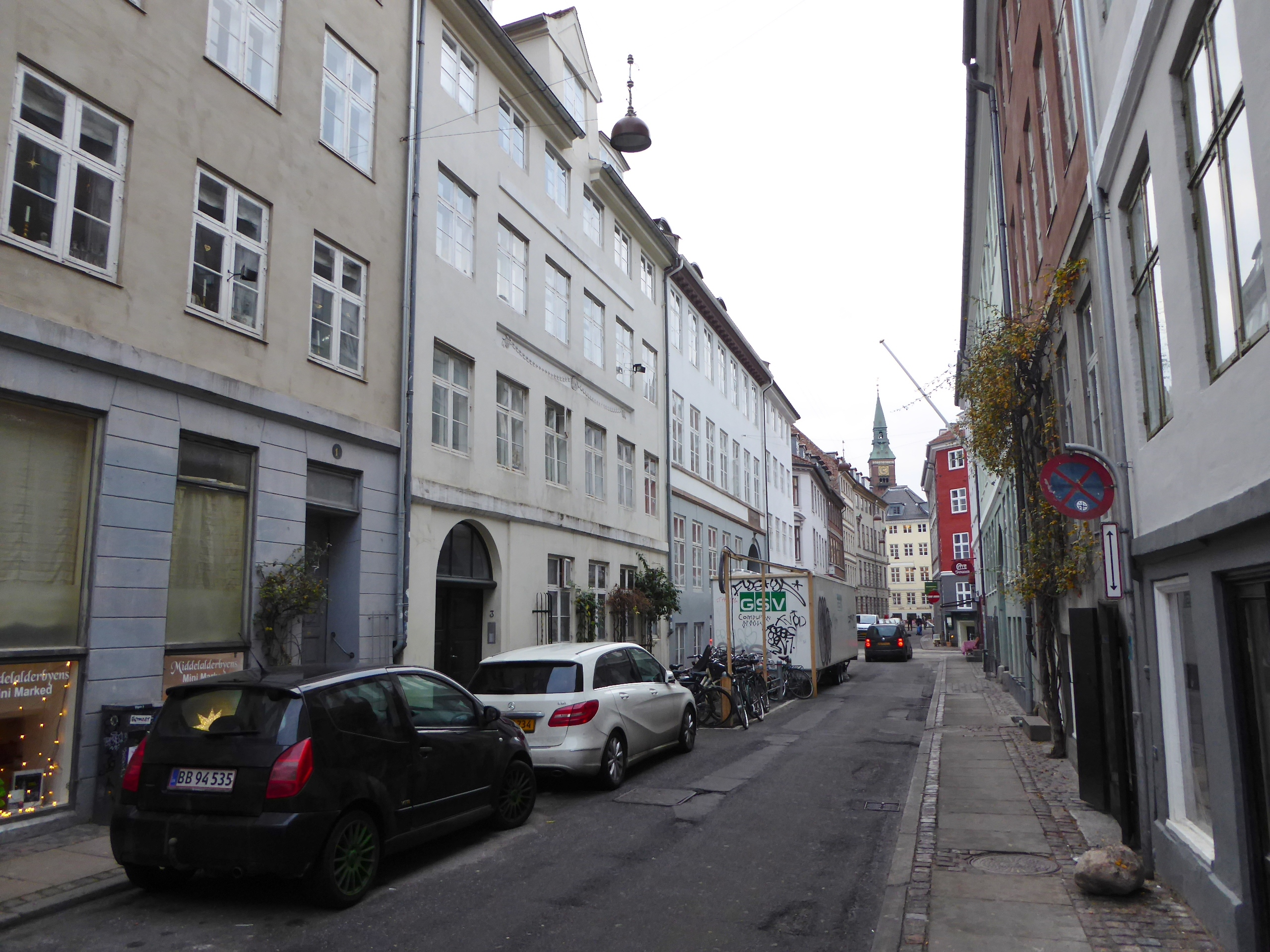 The street Brolæggerstræde in Indre by in Copenhagen. In the background the Copenhagen town hall tower can be seen.